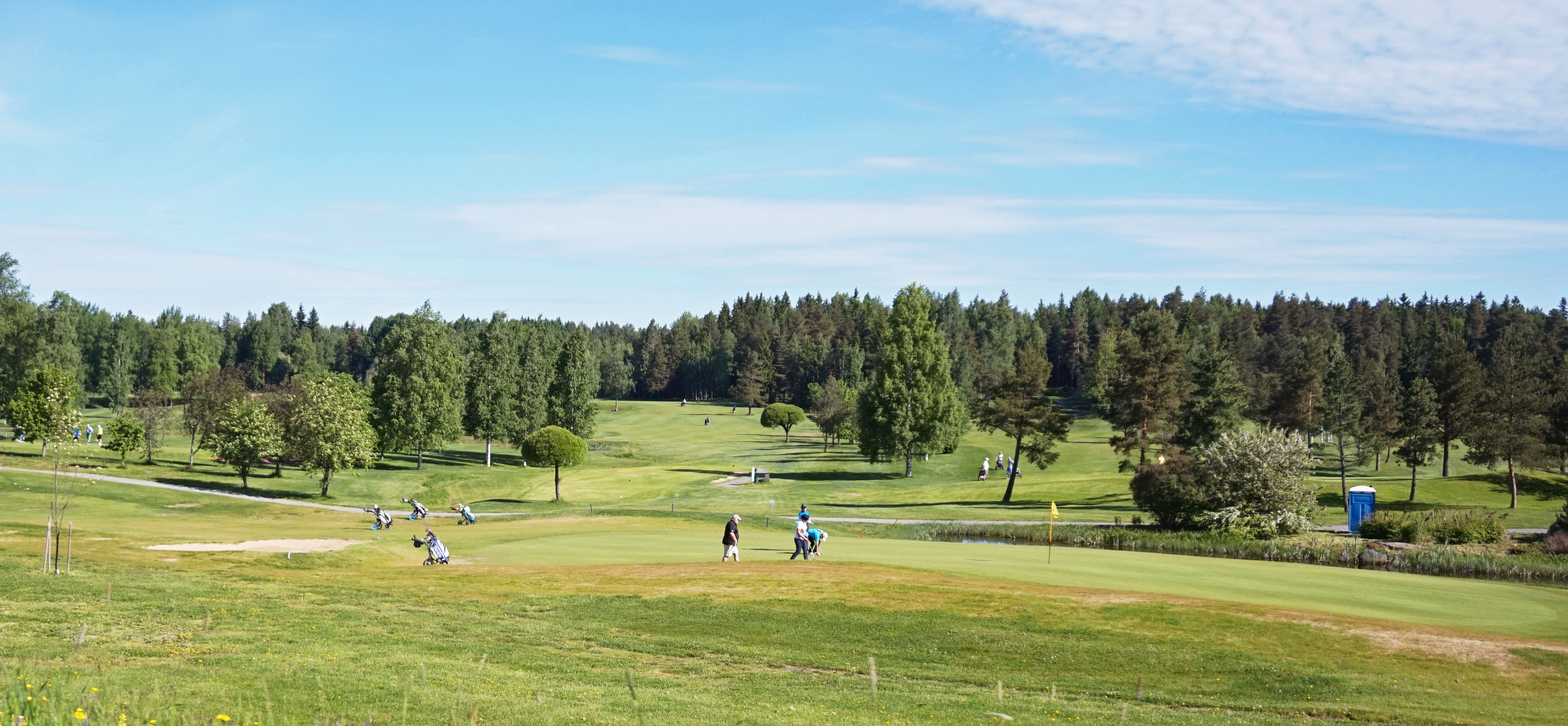 A golf field in Tampere, Finland.